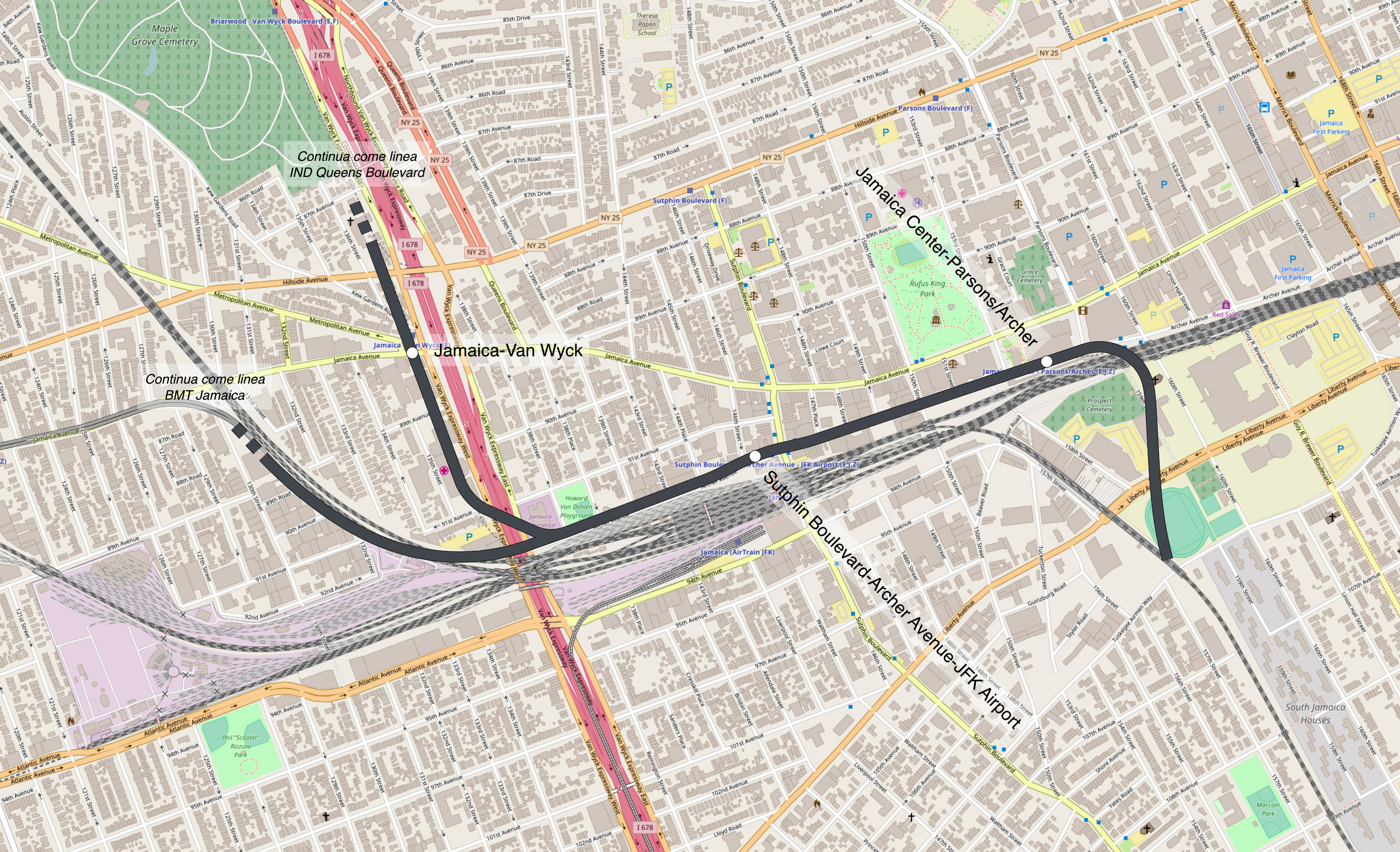 Archer Avenue Line map